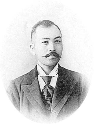 T. Yokoi, Professor of Agriculture.